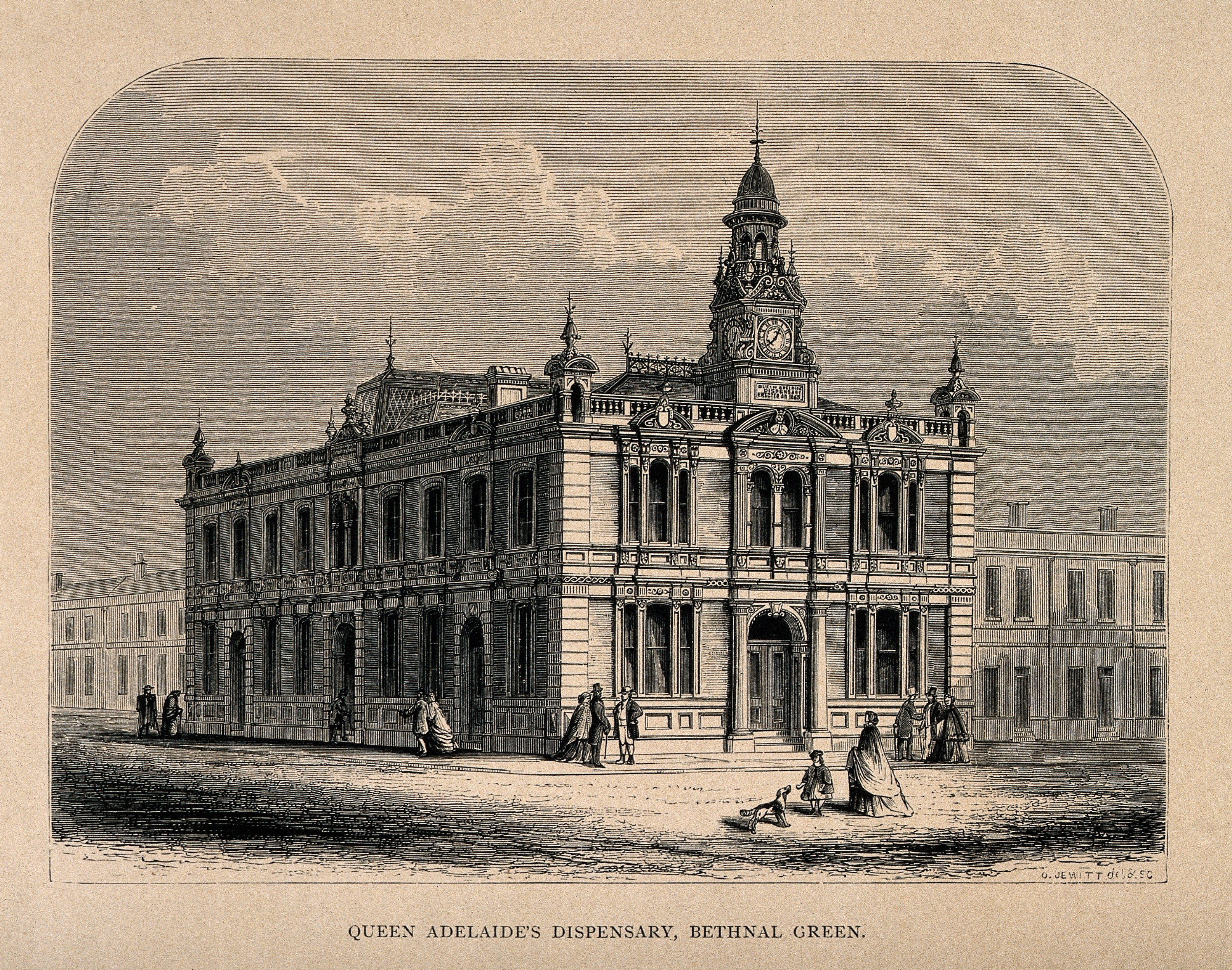 Queen Adelaide's Dispensary, Bethnal Green. Wood engraving by O. Jewitt after himself [1865]. Iconographic Collections Keywords: Amelia Adelaide Louisa Theresa Caroline of Saxe-Coburg Meiningen; Caesar A. Long; William Ward Lee; Thomas Orlando Sheldon Jewitt; Queen Adelaide's Dispensary (Bethnal Green)